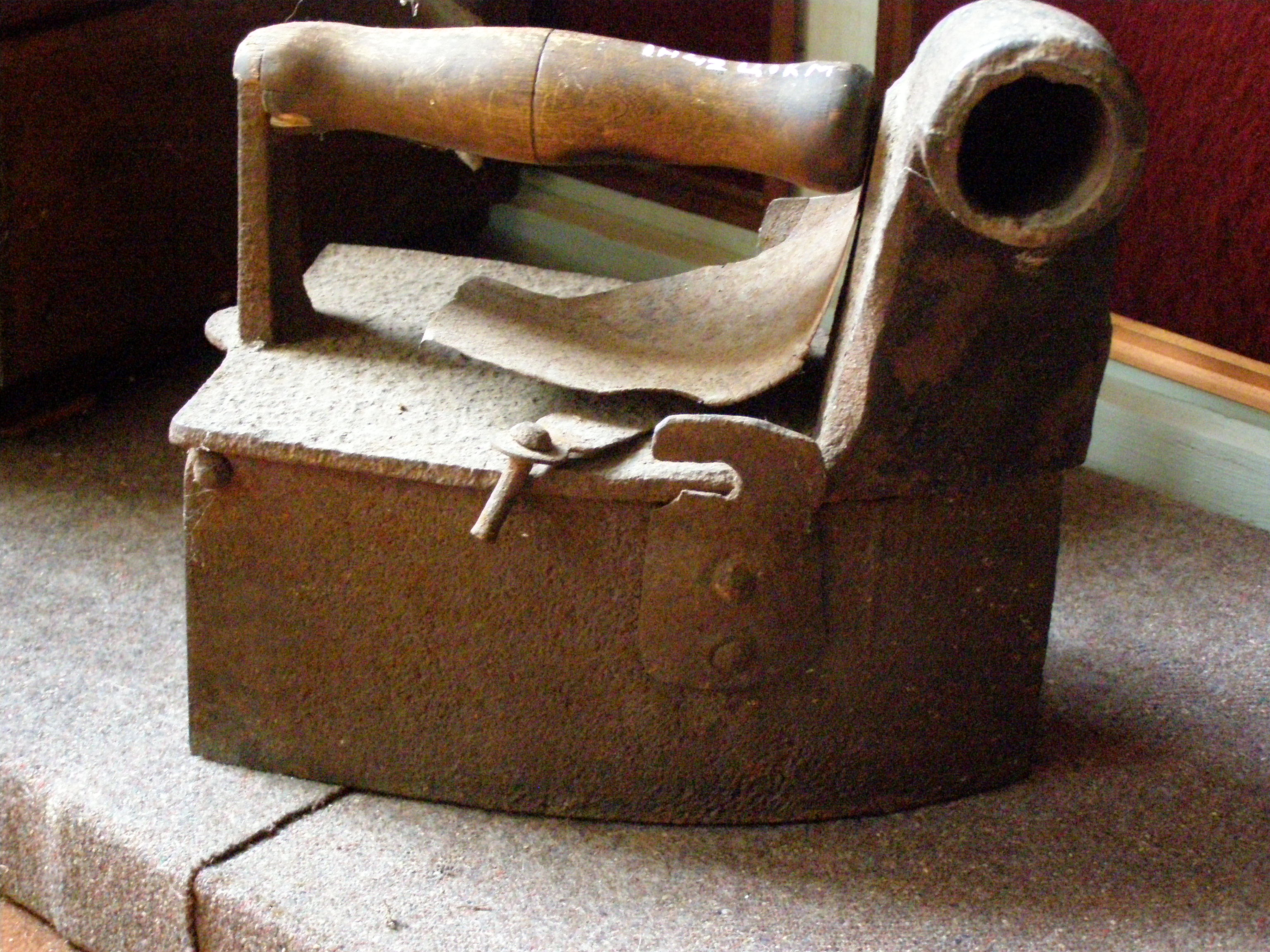 Charcoal iron with funnel. XIXth or beginning of XXth century. Zaritschanka. Ukraine